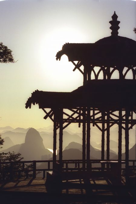 China View, Rio de Janeiro